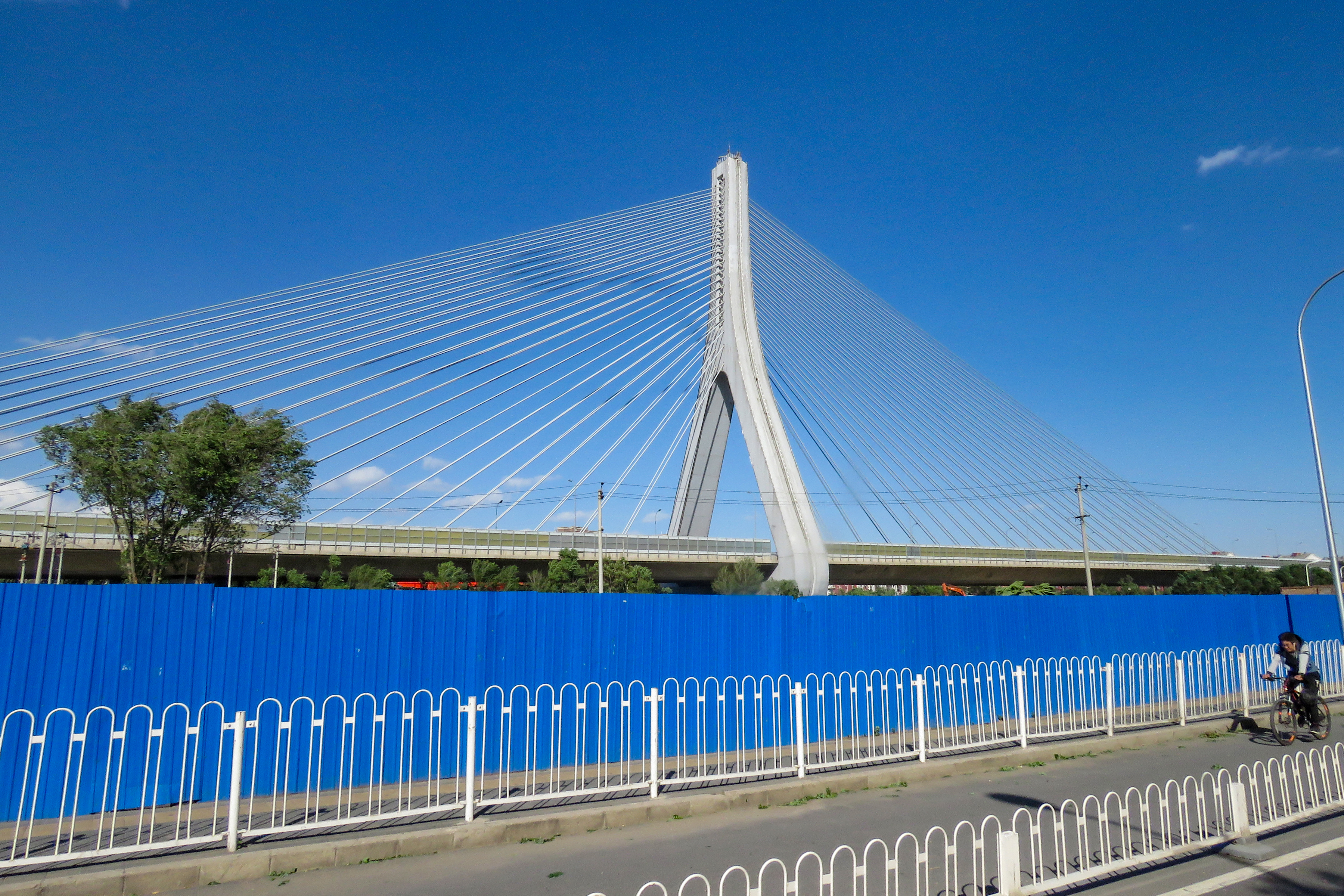 Taken in crosswind.